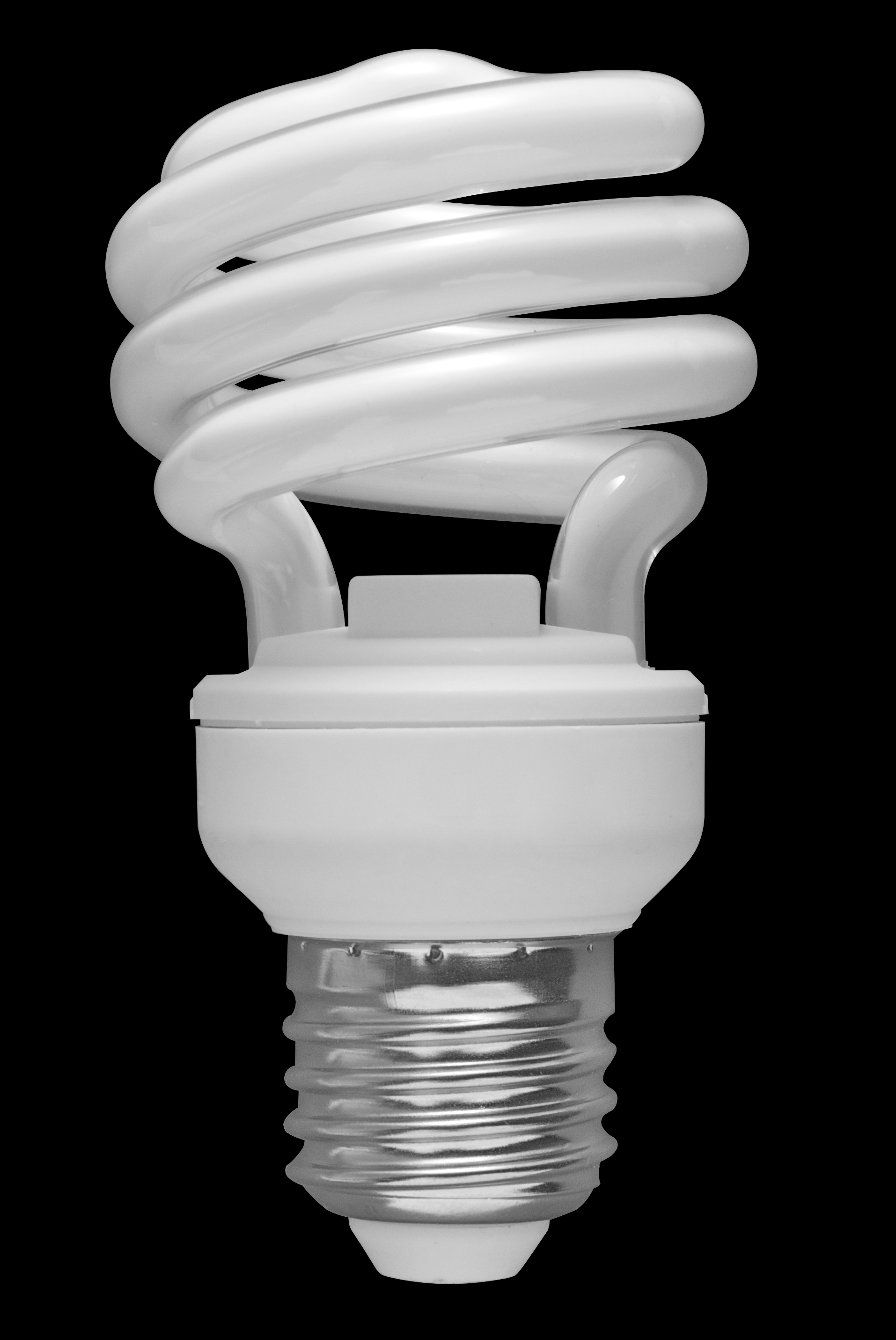 A spiral CFL bulb on a black background